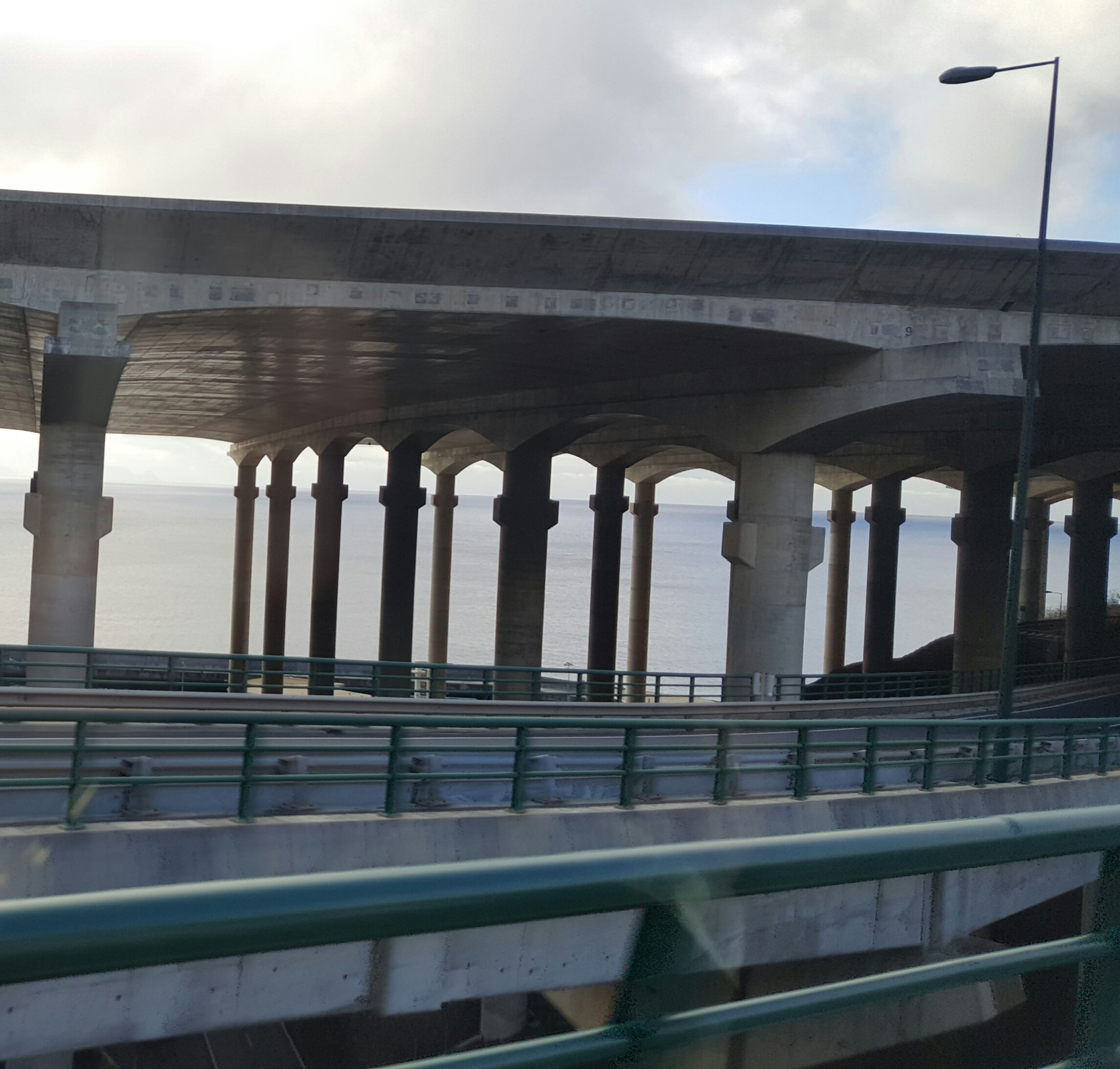 Airport